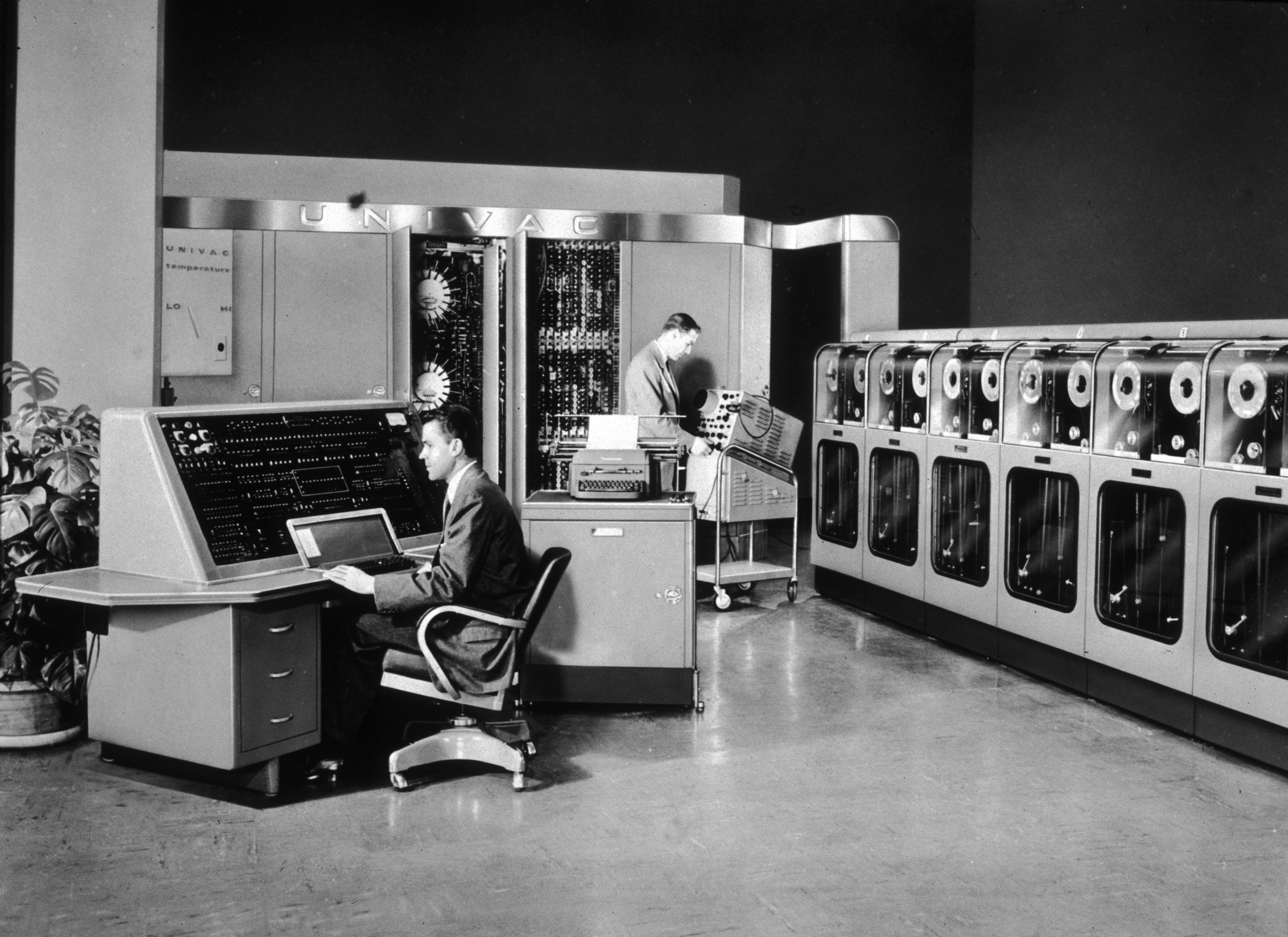 On June 14, 1951, we dedicated UNIVAC I, the nation's first commercial computer built for a civilian government agency at the Eckert-Mauchly Laboratory in Philadelphia, PA.